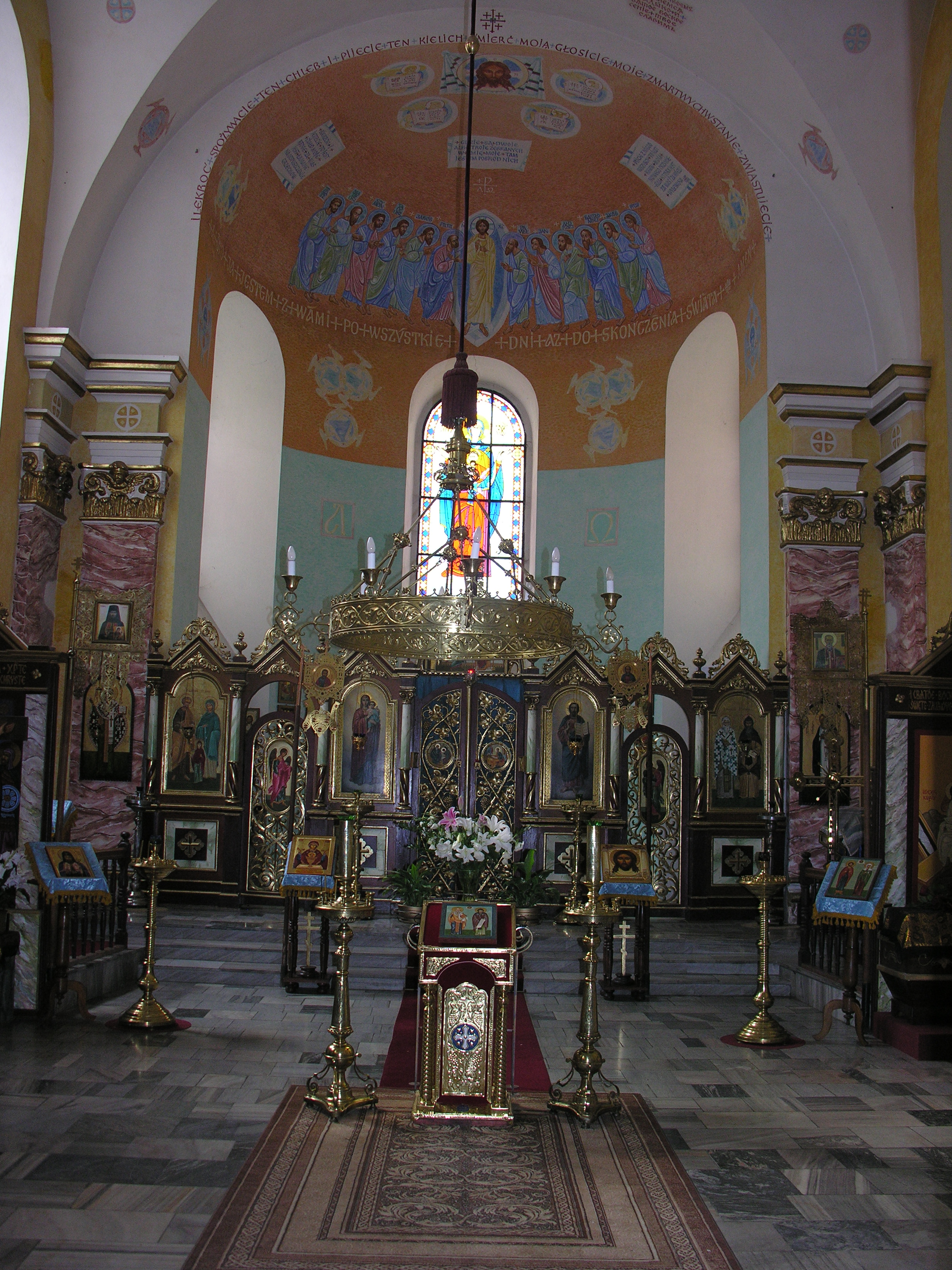 Wnętrze cerkwi św. św. Cyryla i Metodego we Wrocławiu